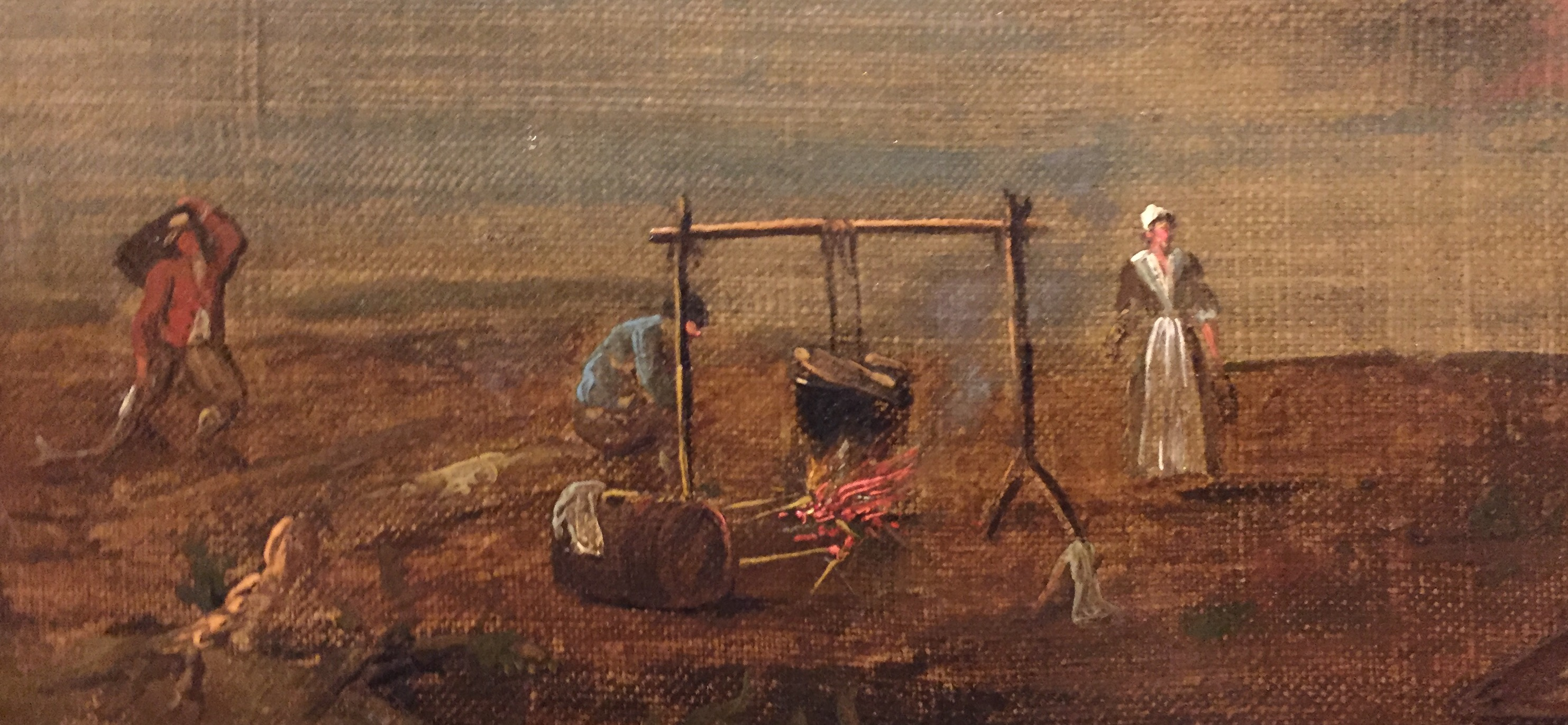 Inset of painting by Samuel Scott (c. 1702-7=1772) British Vessels at Anchor in Annapolis Royal, Nova Scotia, with a Rear-Admiral of the Red Firing a Salute, 1751 Based on drawing by John Henry Bastide, 1751; earliest known image of Acadians; only pre-deportation image of Acadians